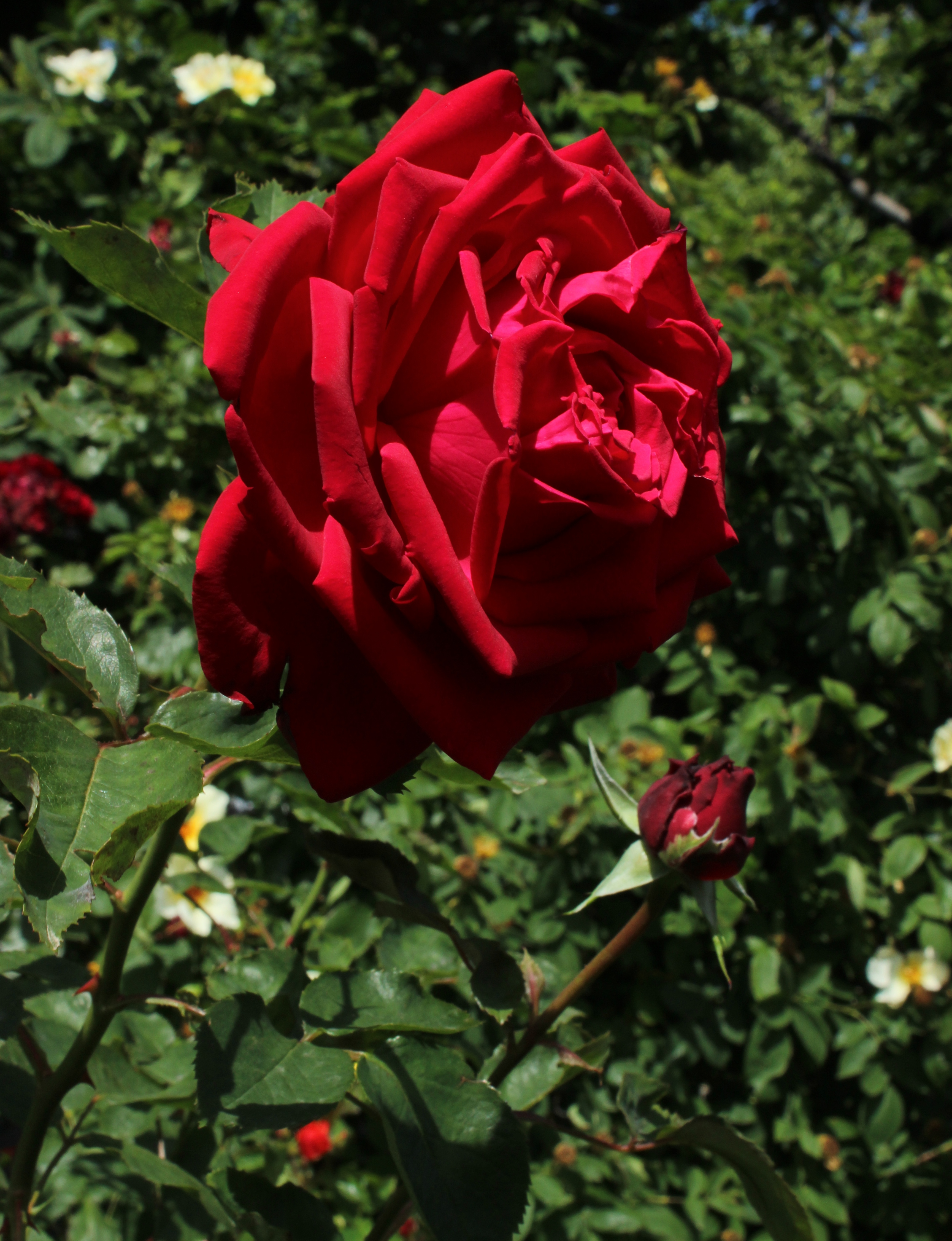 Rosa 'Sophia Loren' in the Volksgarten in Vienna. Identified by sign.